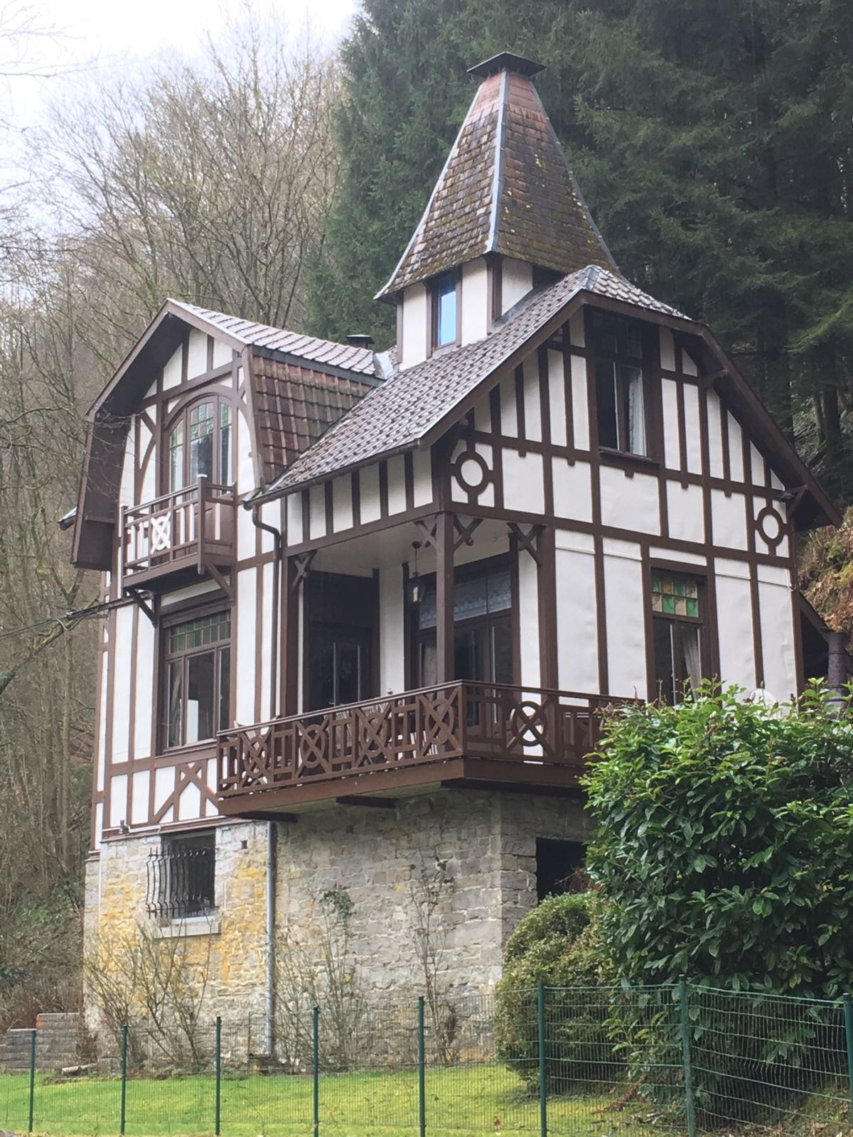 The house built by Belgian artist Richard Heintz (1871-1929) at the Chemin de Sy 32, Verlaine-sur-Ourthe, Belgium in 1904.